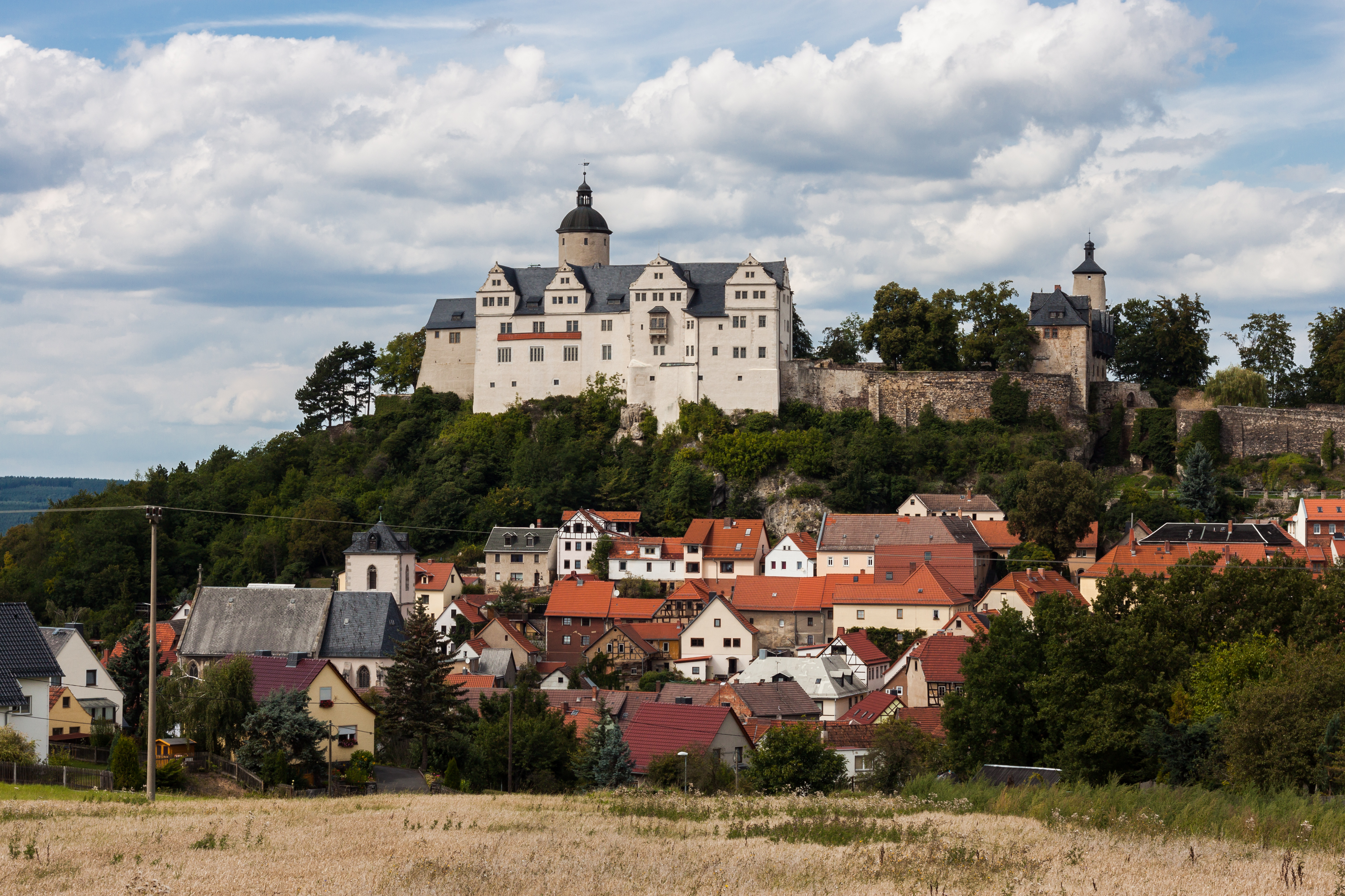 The city and castle of Ranis (Thuringia, Germany).